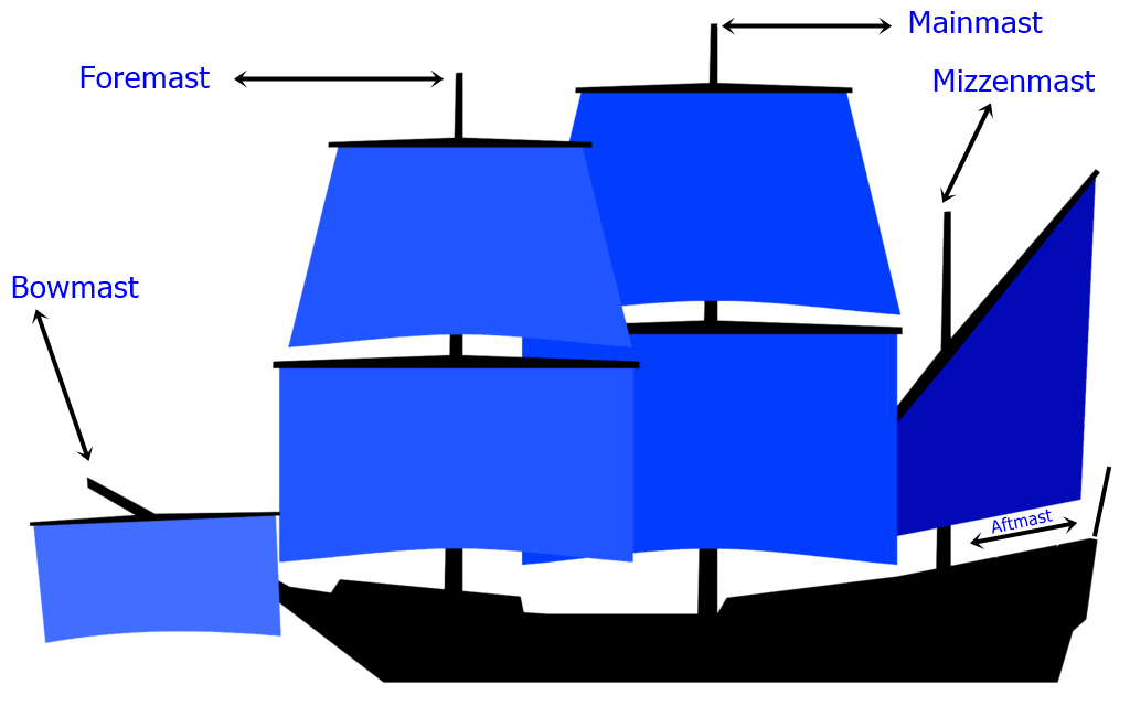 My own work using Photoshop June 2018. It explains in diagram form the names of masts on a sailing ship and is based upon the descriptions of masts in relation to the positioning of command flags outlined by Perrin, W. G. (William Gordon) (1922). "Flags of Command:Admirals Flags". British flags, their early history, and their development at sea; with an account of the origin of the flag as a national device. Cambridge, England: Cambridge : The University Press. p. 87. Source here Adapted using an image at Attribution